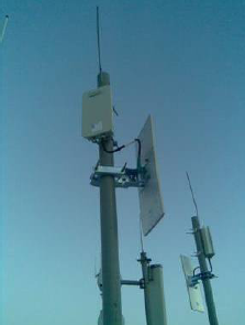 Enforta Base Station